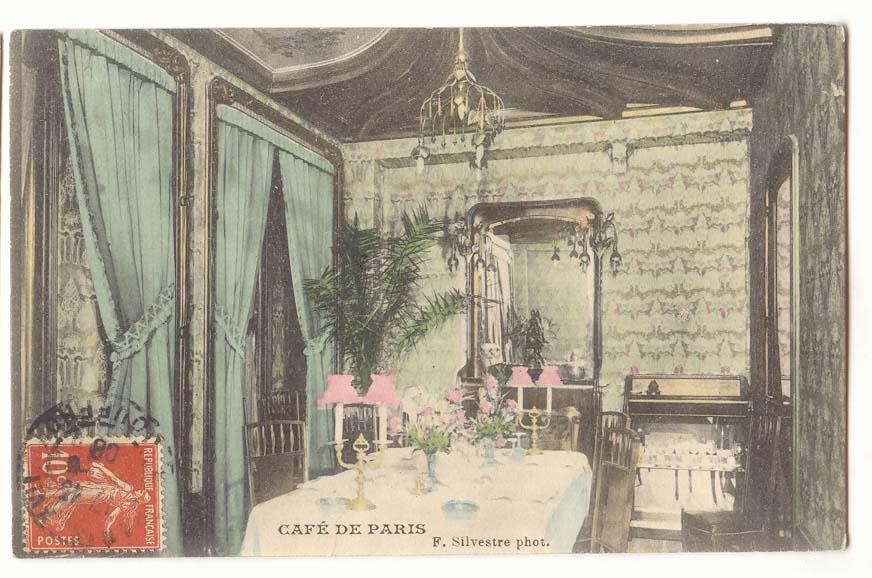 In 1898, Louis Majorelle designed 3 rooms for the fashionable "Café de Paris", at 41 Rue Avenue de l’Opéra, in the French capital. This Art Nouveau work is very representative of the fin-de-siècle taste. The same year Majorelle hired the young architect Henri Sauvage for the construction of his Villa in Nancy. One year later, Henri Sauvage also executed the decoration of 2 other rooms in the same "Café de Paris.